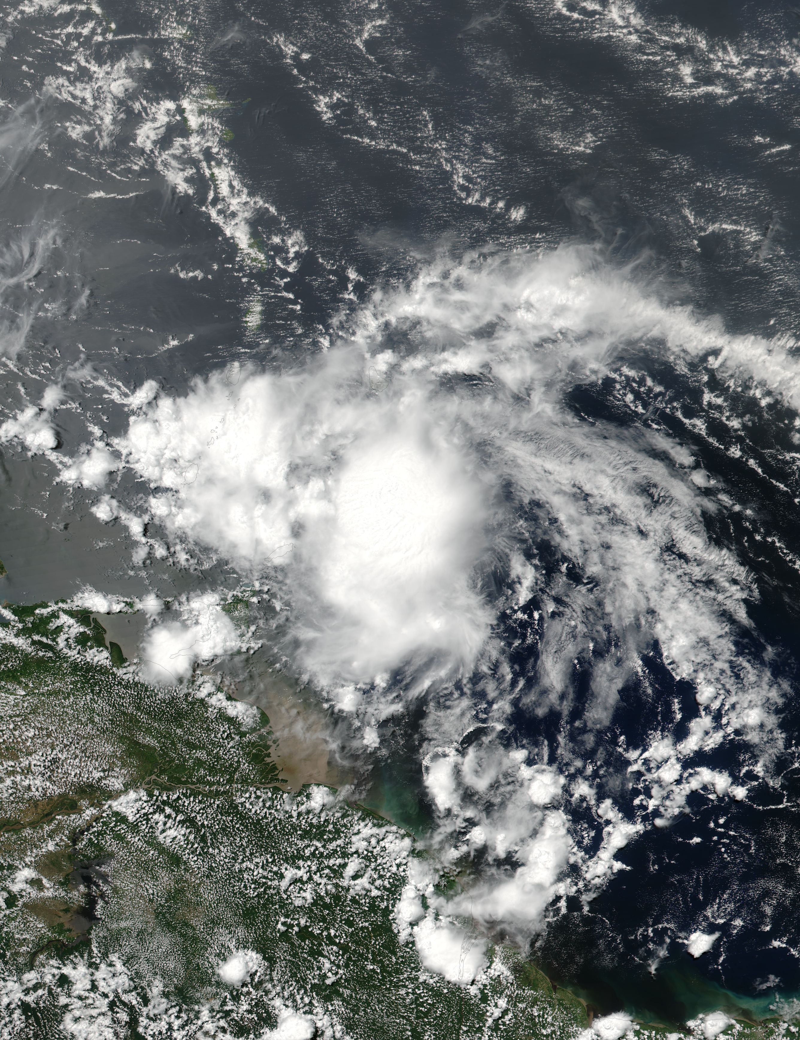 Tropical Storm Don (05L) approaching the Windward Islands